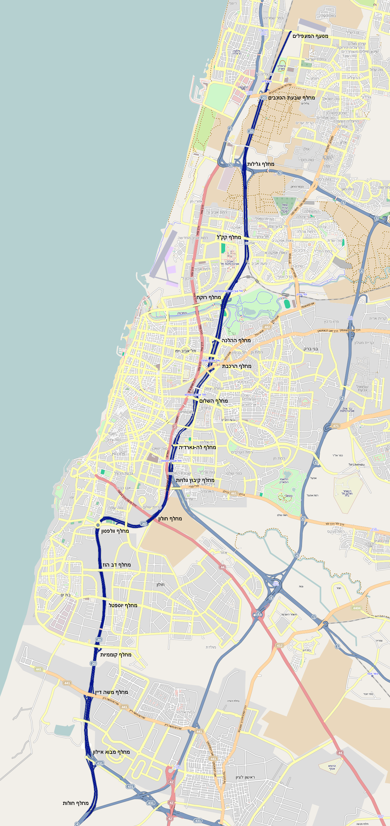 Israel Highway 20(highlighted in dark blue)